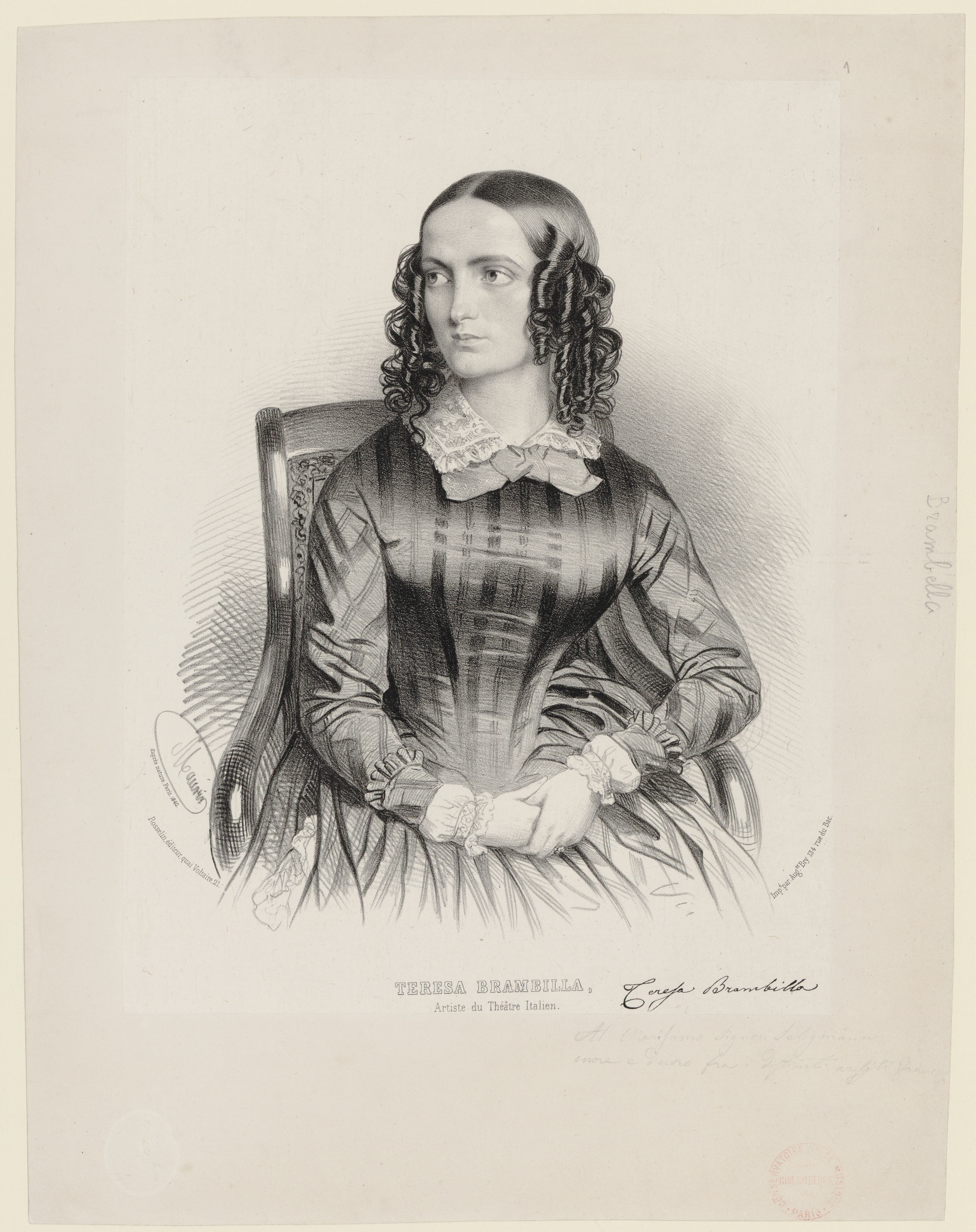 Italian soprano Teresa Brambilla (1813-1895) by Antoine Maurin (1793-1860)